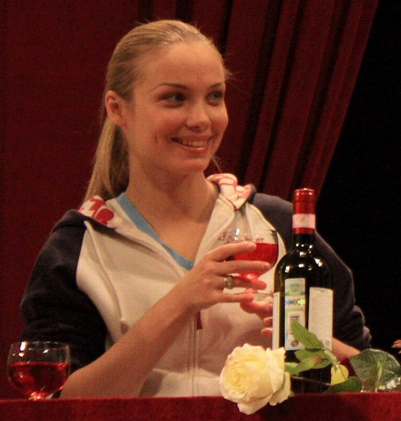 Tatiana Albertovna Arntgolts